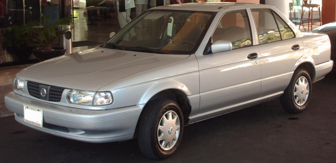 2005-present Nissan Tsuru photographed in Mazatlan, Sinaloa, Mexico.